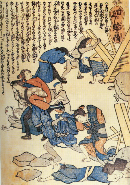 Namazu-e - Title: Yonaoshi namazu no nasake ("The compassion of the world-reforming catfish" or "Namazu the saviour"). Woodblock print kawaraban pamphlet right after the quake of 1855. The giant catfish believed to cause the earthquake, and subsequent rebuilding meant jobs and income for the unemployed.